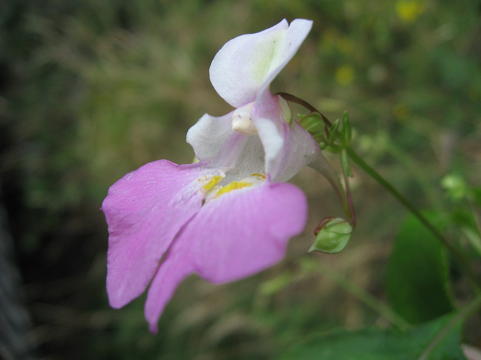 Impatiens balfourii Hook. f.